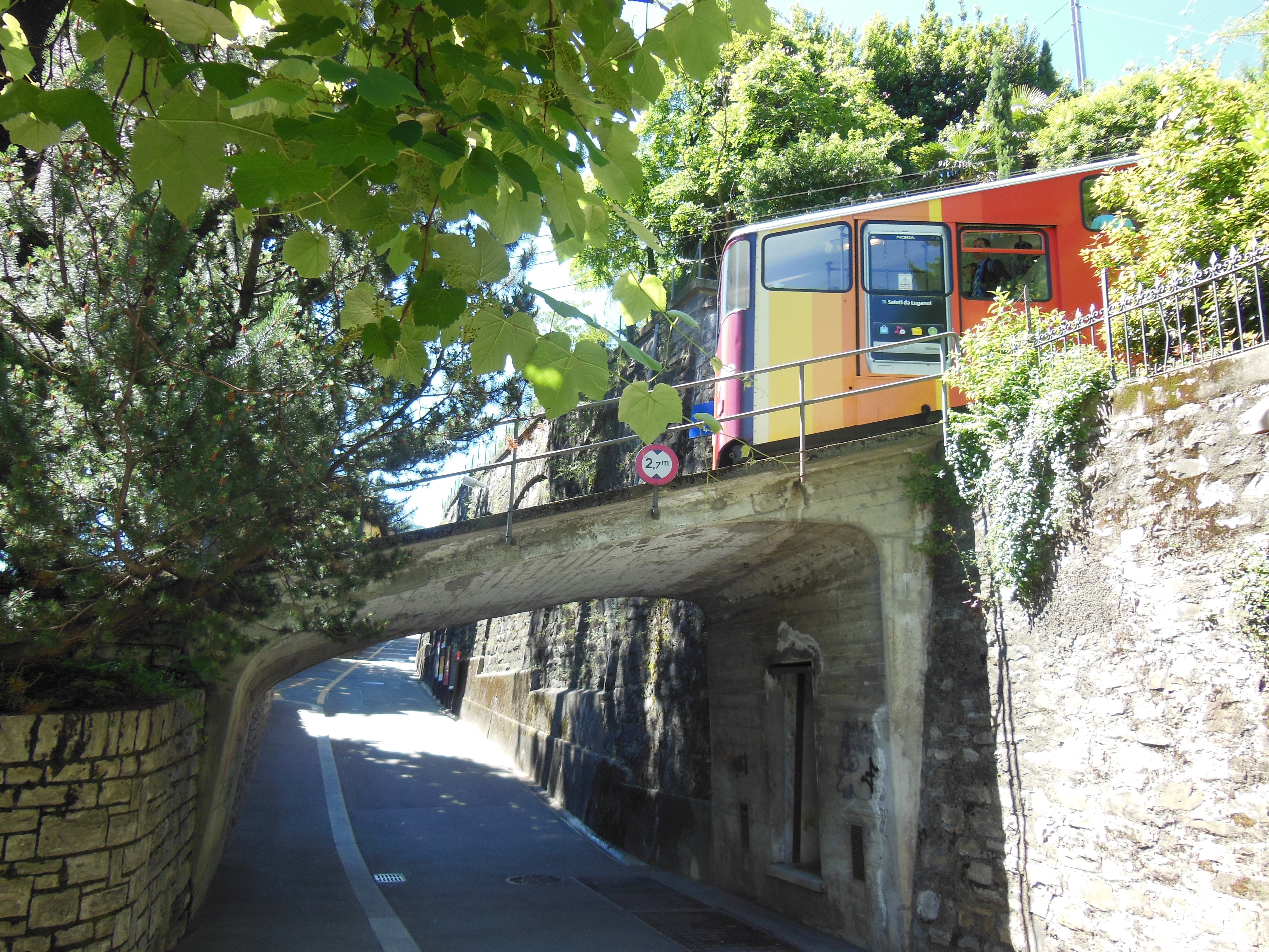 The Lugano Città–Stazione funicular passing over the Via degli Amadio. For more information, see the Wikipedia article Lugano Città–Stazione funicular.